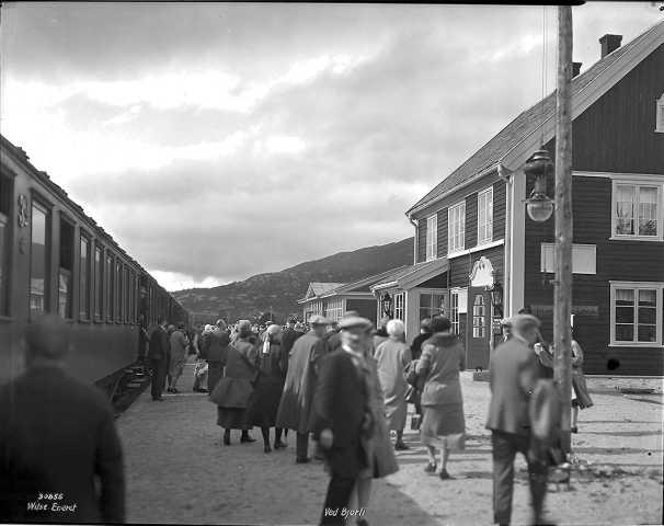 Train stopping at Bjorli Station on the Rauma Line, Norway